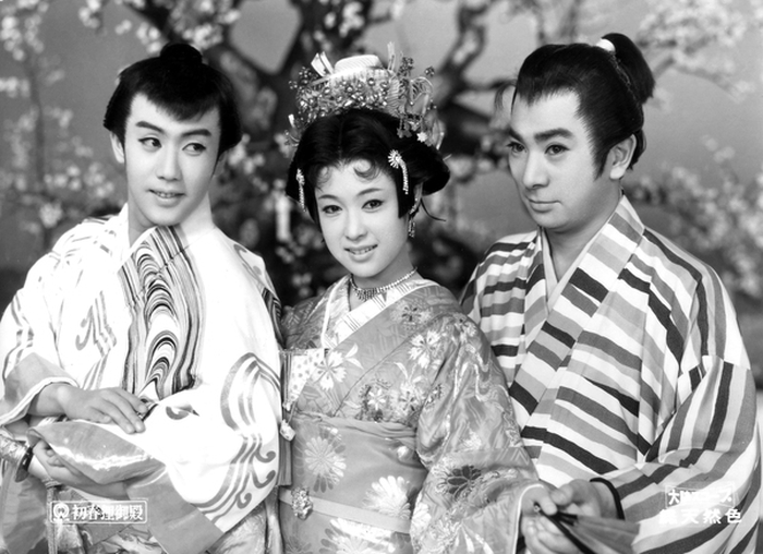 Studio still for 1959 Japanese movie The Badger Palace: Happy New Year (初春狸御殿 Hatsu Haru, Tanuki-goten), featuring (l-r) Raizō Ichikawa VIII (八代目市川雷蔵), Ayako Wakao (若尾文子) and Shintarō Katsu (勝新太郎).